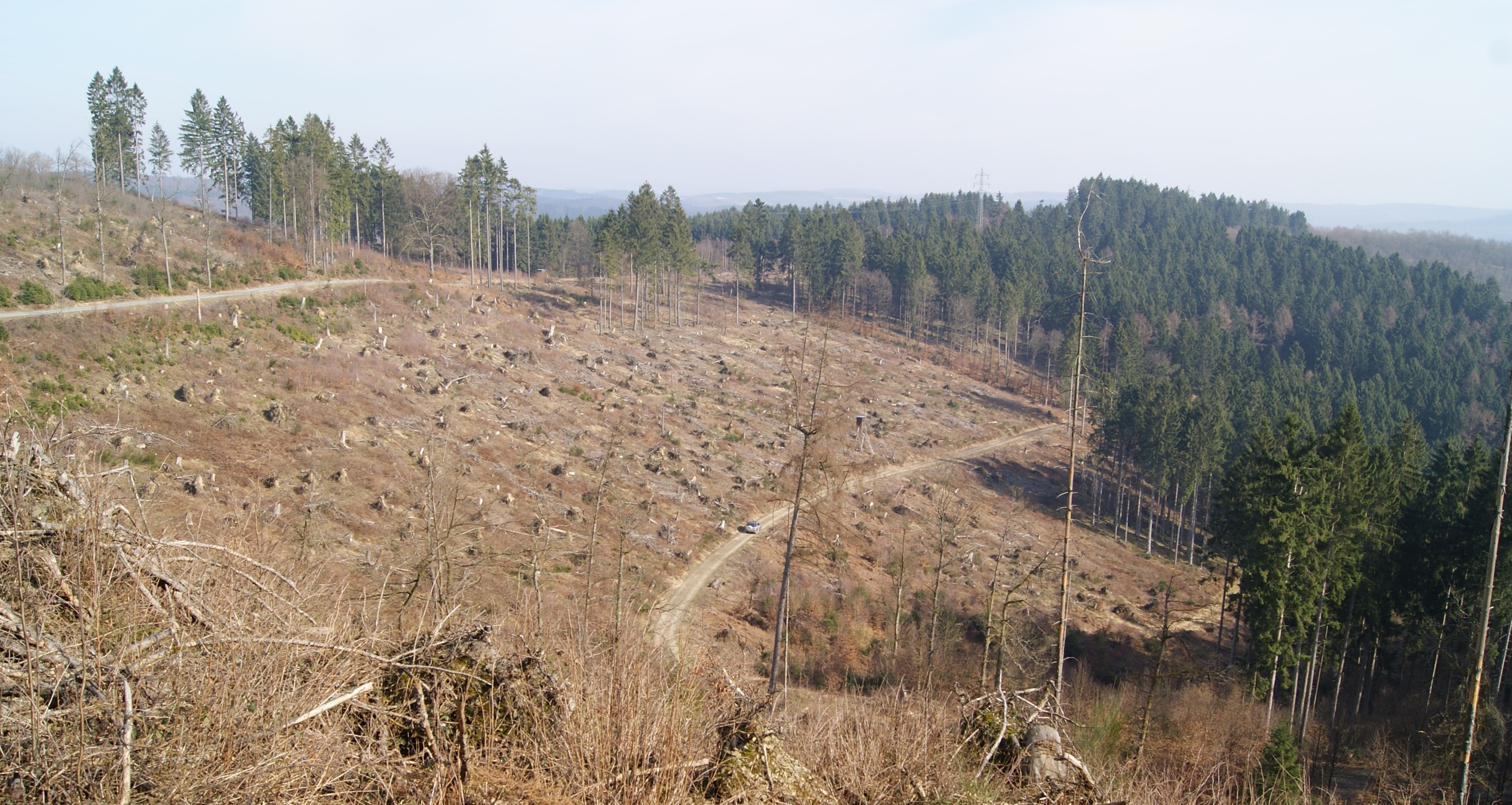 Plittershagen/Mt. Ginsberg (southern slope), Freudenberg, Germany. Deforested by Kyrill storm in 2007.